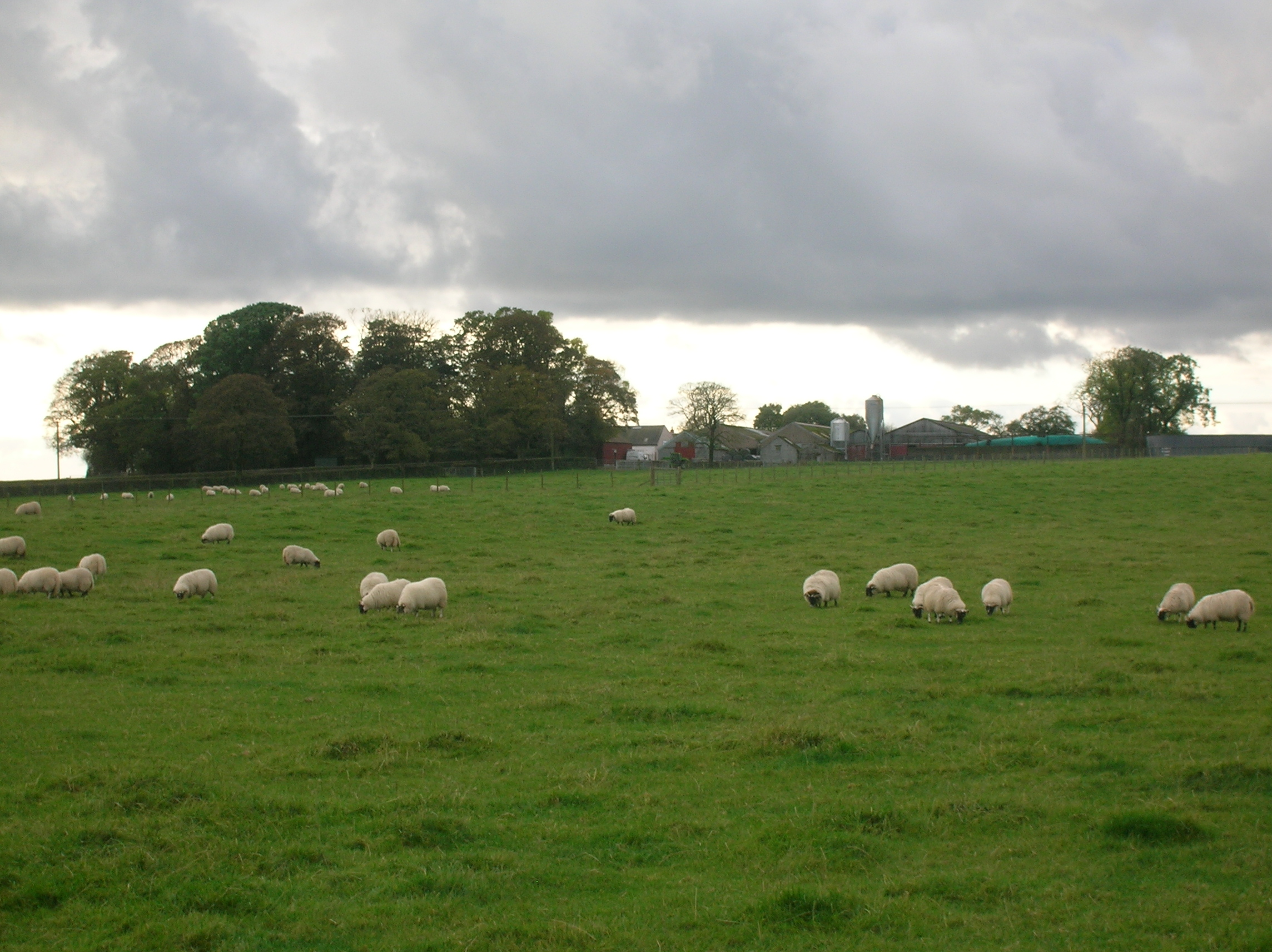 Wheatrig farm, North Ayrshire, Scotland